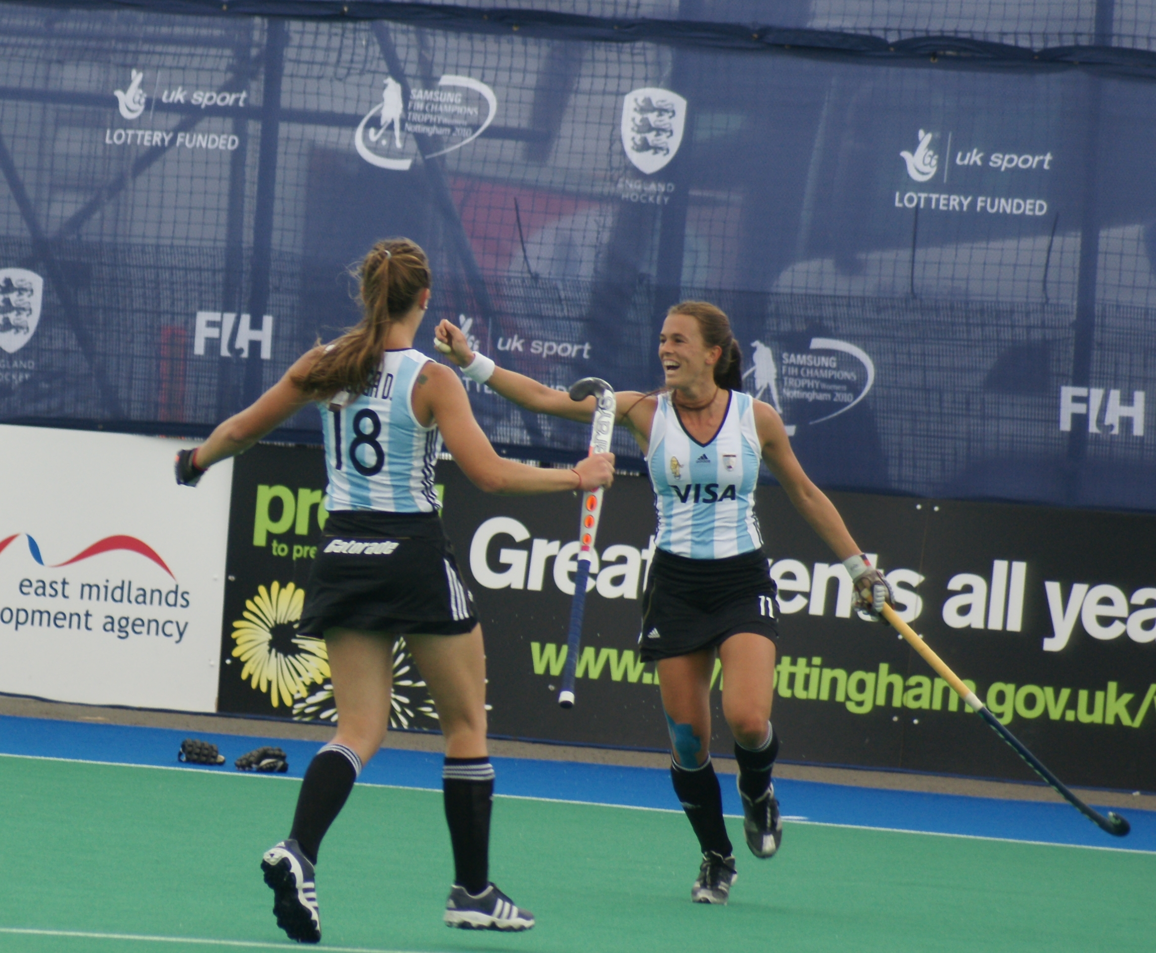 Carla Rebecchi celebrates her goal (2-1) with Daniela Sruoga